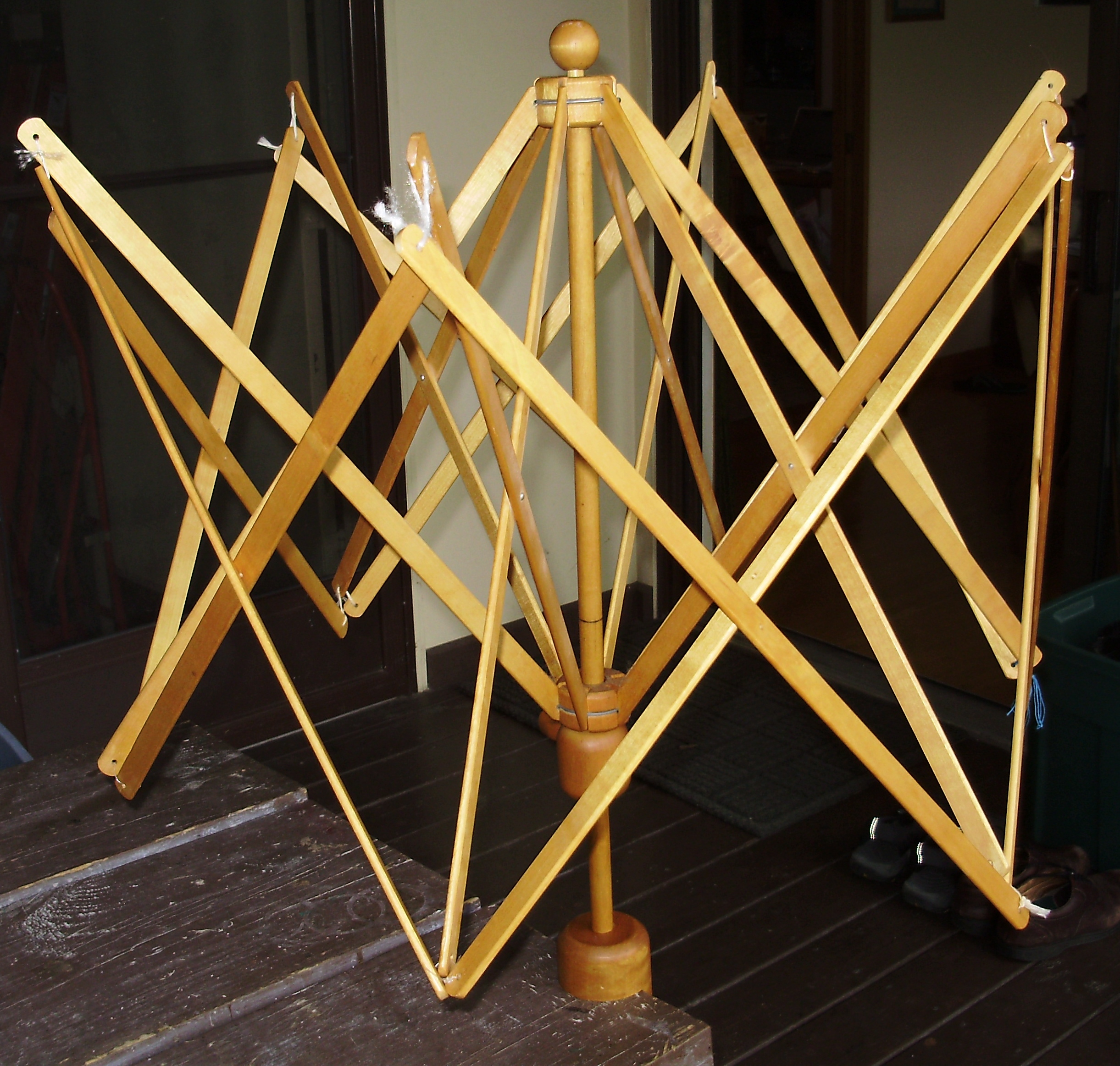 An umbrella swift - a tool used to wind off skeins of yarn